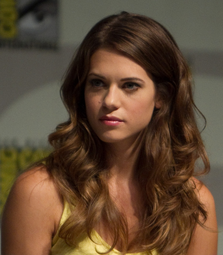 Lyndsy Fonseca at a panel for the television series Nikita at San Diego Comic-Con in July 2010.